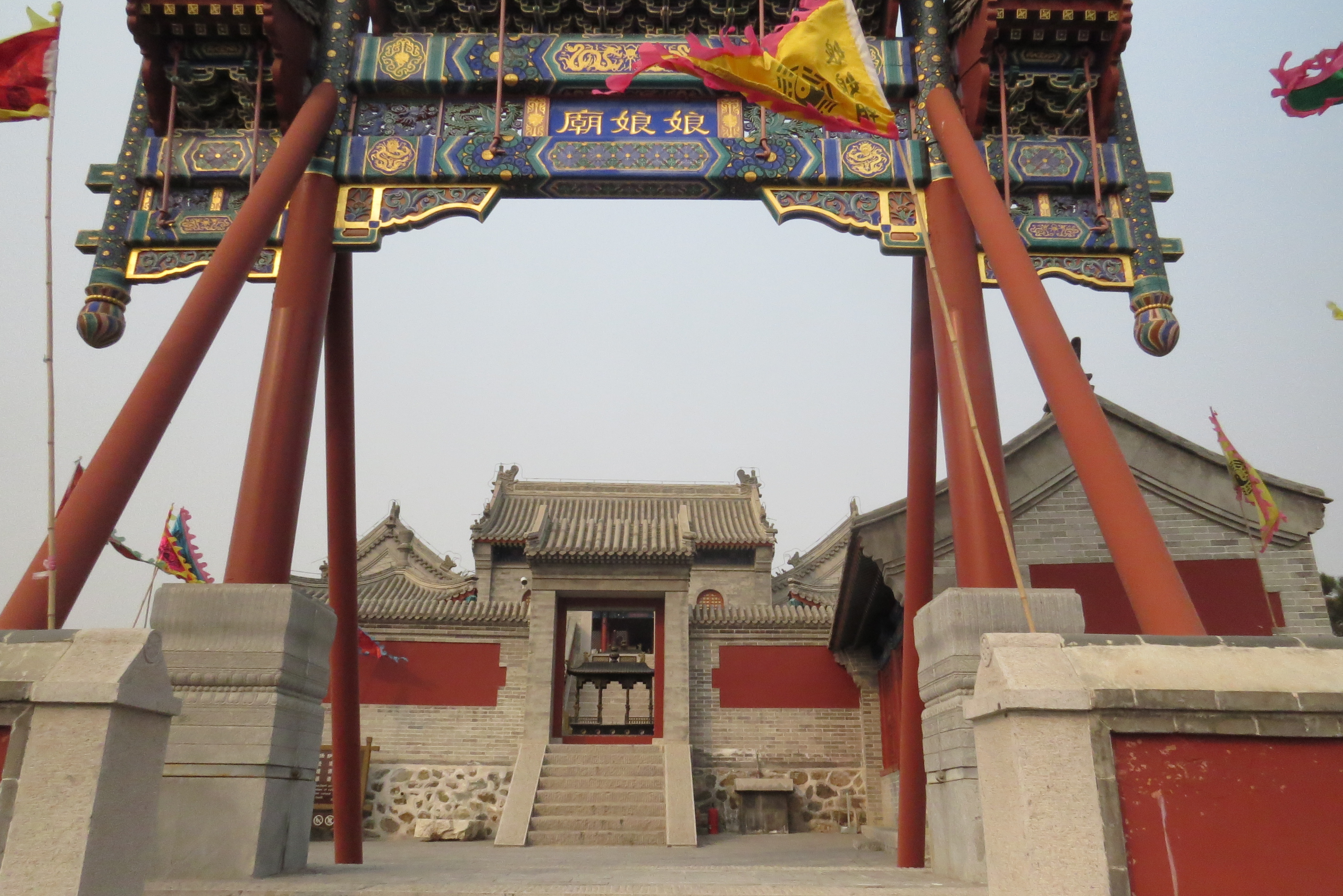 On a hill.